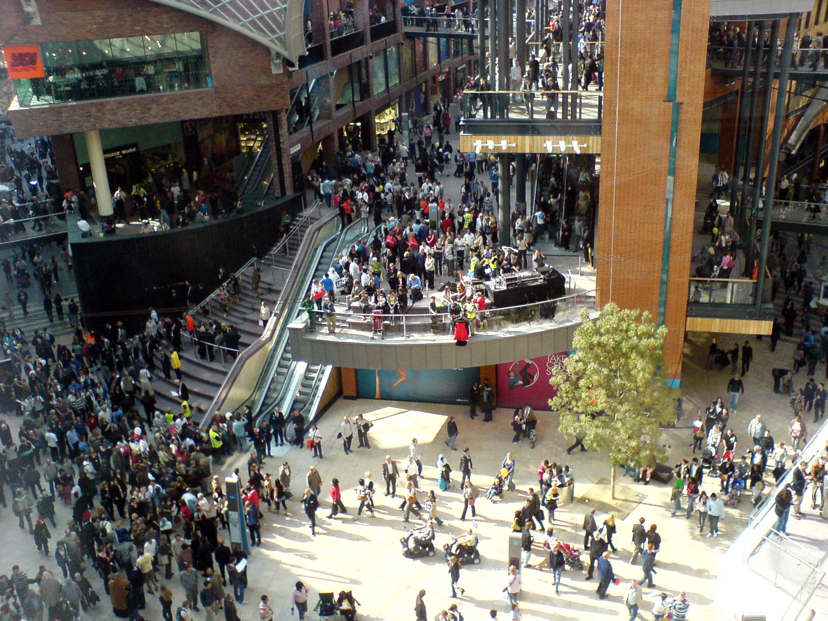 Cabot Circus just after opening.